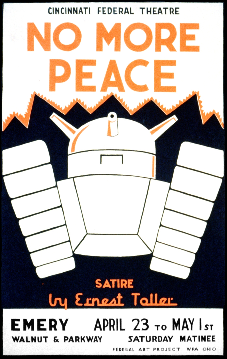 Poster for Federal Theatre Project presentation of Ernst Toller's play No More Peace at the Emery Theatre, Cincinnati, Ohio